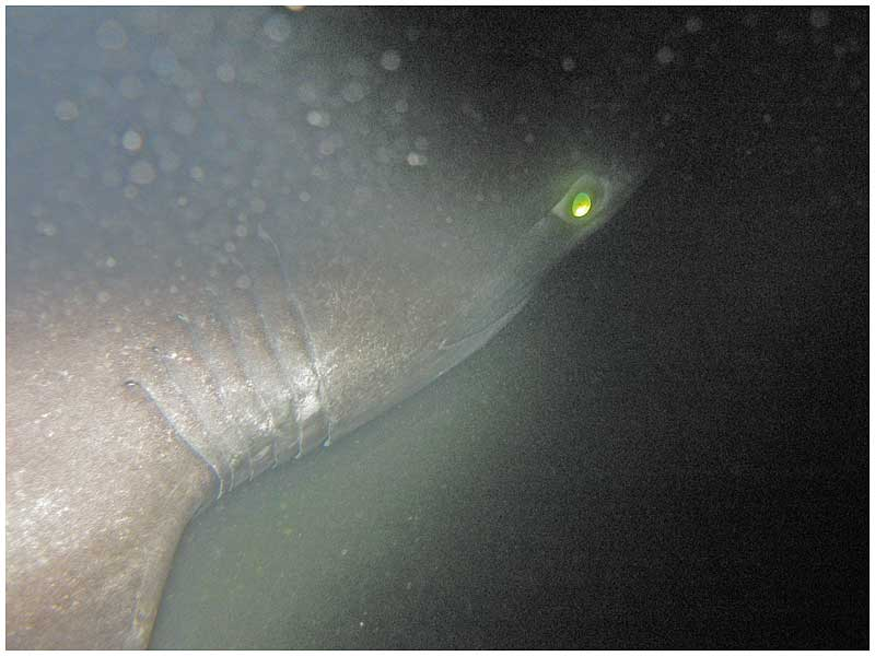 Sixgill shark (Hexanchus griseus) off Seattle.